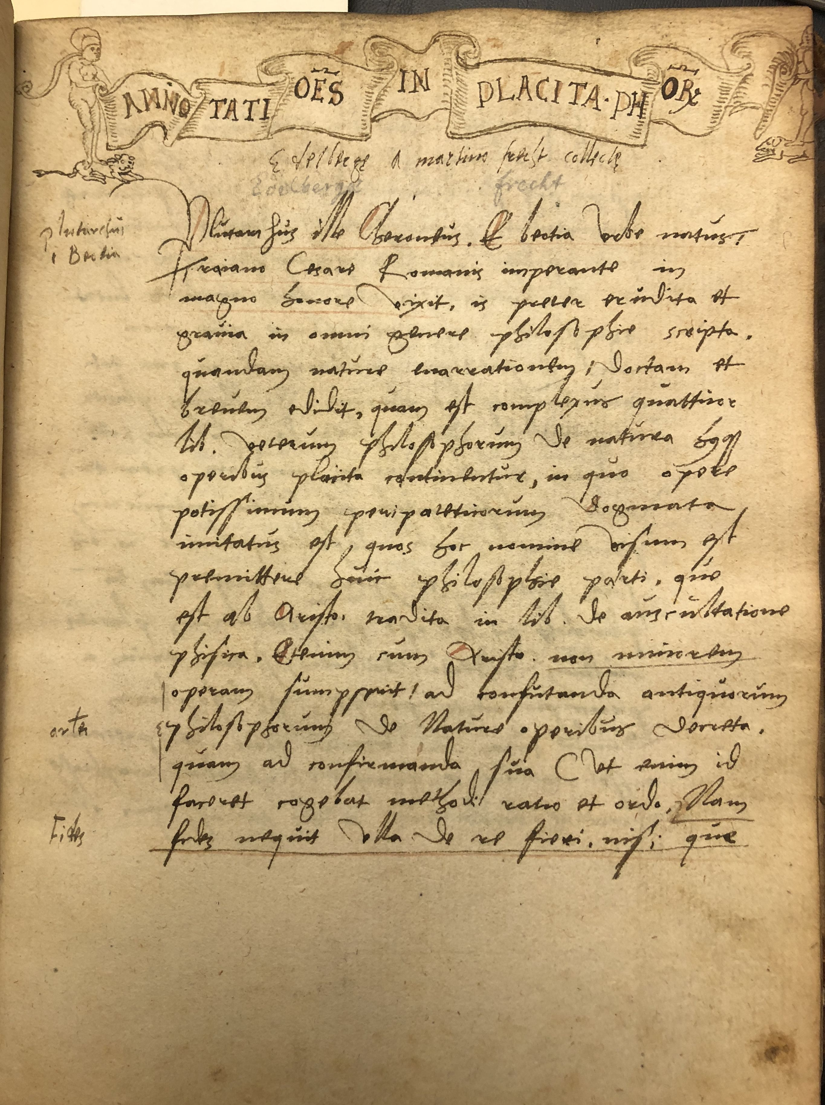 Martin Frecht: Annotationes in Placita philosophorum